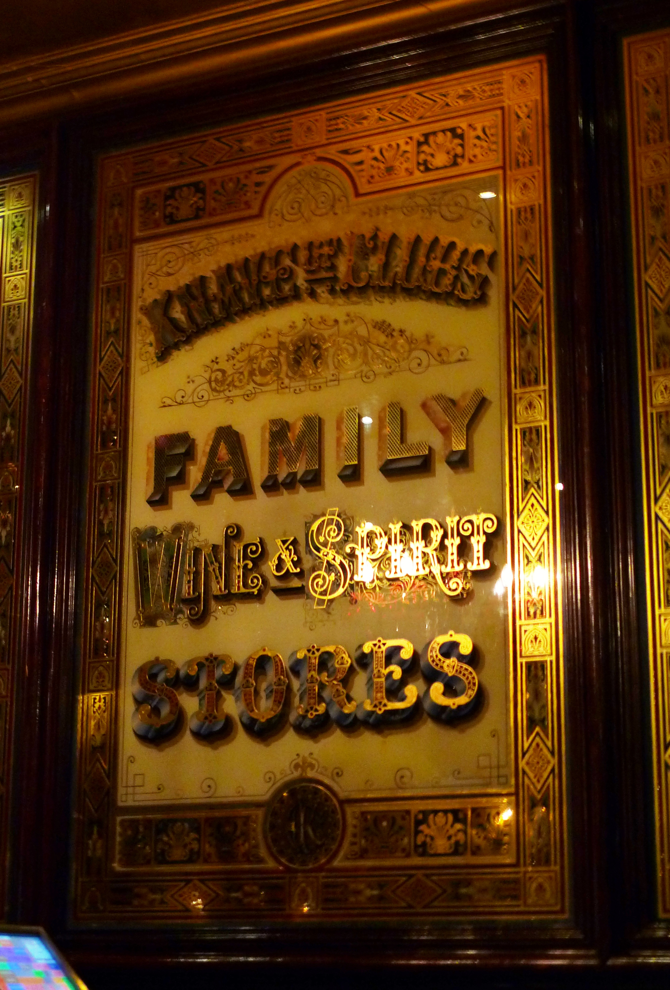 Extravagant decoration inside this French restaurant. They have preserved the former pub's original sign, showing its name The Knave of Clubs. (View of exterior.)